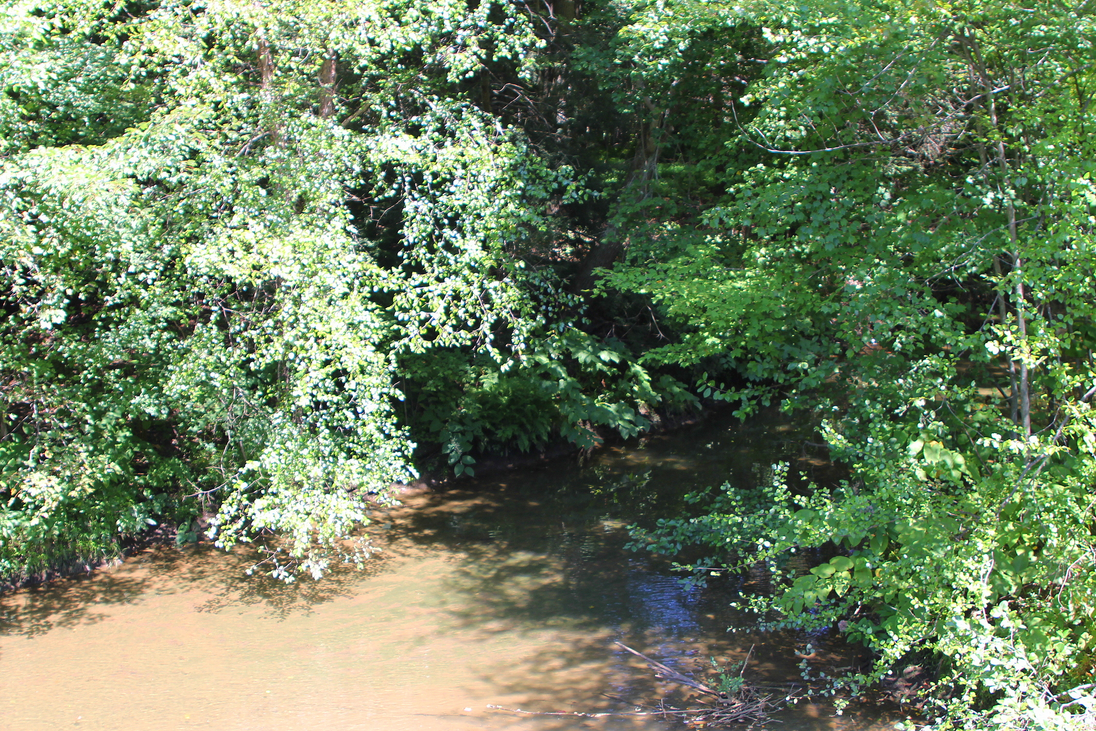 Mouth of Zerbe Run, a tributary of Mahanoy Creek, in Little Mahanoy Township, Northumberland County, Pennsylvania